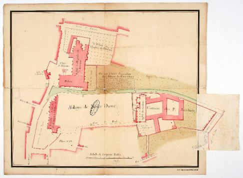 Plan de l'abbaye de Notre-Dame de Troyes, des Jacobins, de la collégiale Saint Etienne, du Palais des Comtes de Champagne et de la place du Pré-aux-duels, XVIIIe siècle - Arch. dép. Aube, 22 H 516